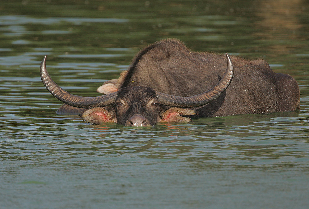 These are large and impressive bovids that never stray far from water. Image taken In Udu Walawe NP, Sri Lanka.